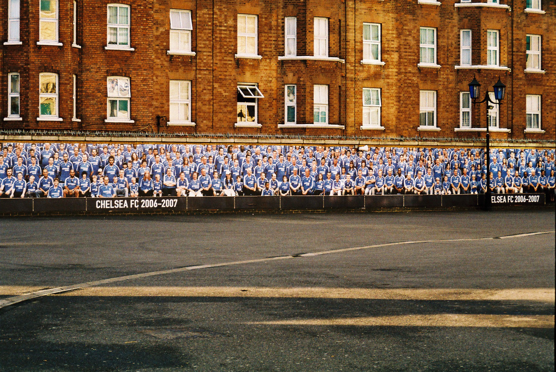 Wall by the stadium of Chelsea FC